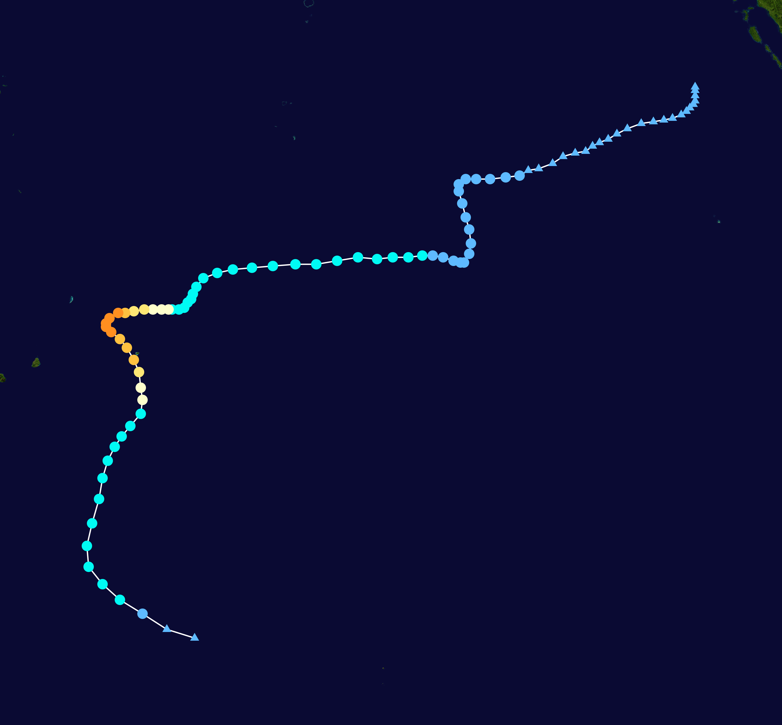 Cyclone Bella (1991) track. Uses the color scheme from the Saffir-Simpson Hurricane Scale.